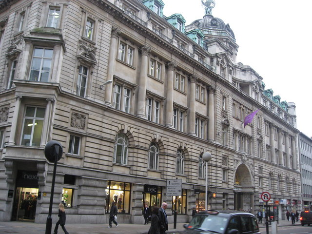 London Metropolitan University, Moorgate, EC2